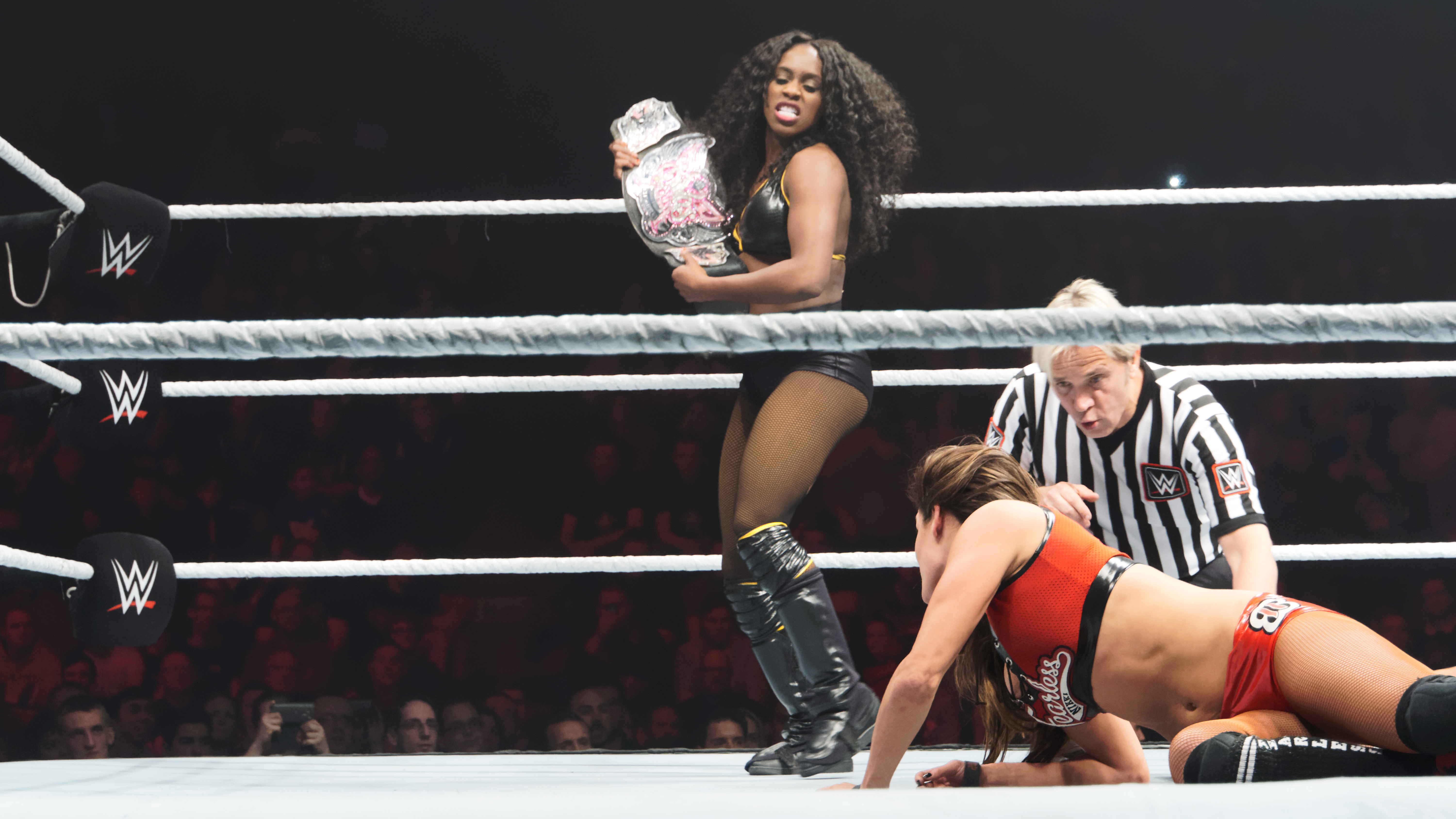 Naomi posing with the Divas Championship during a live event in 2015.